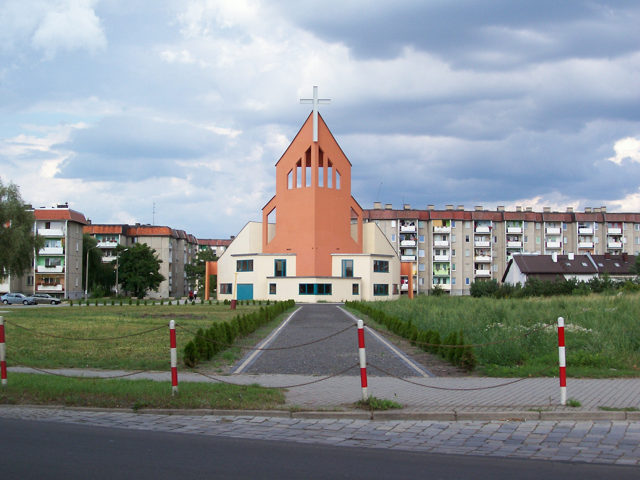 The church in Opole-Metalchem